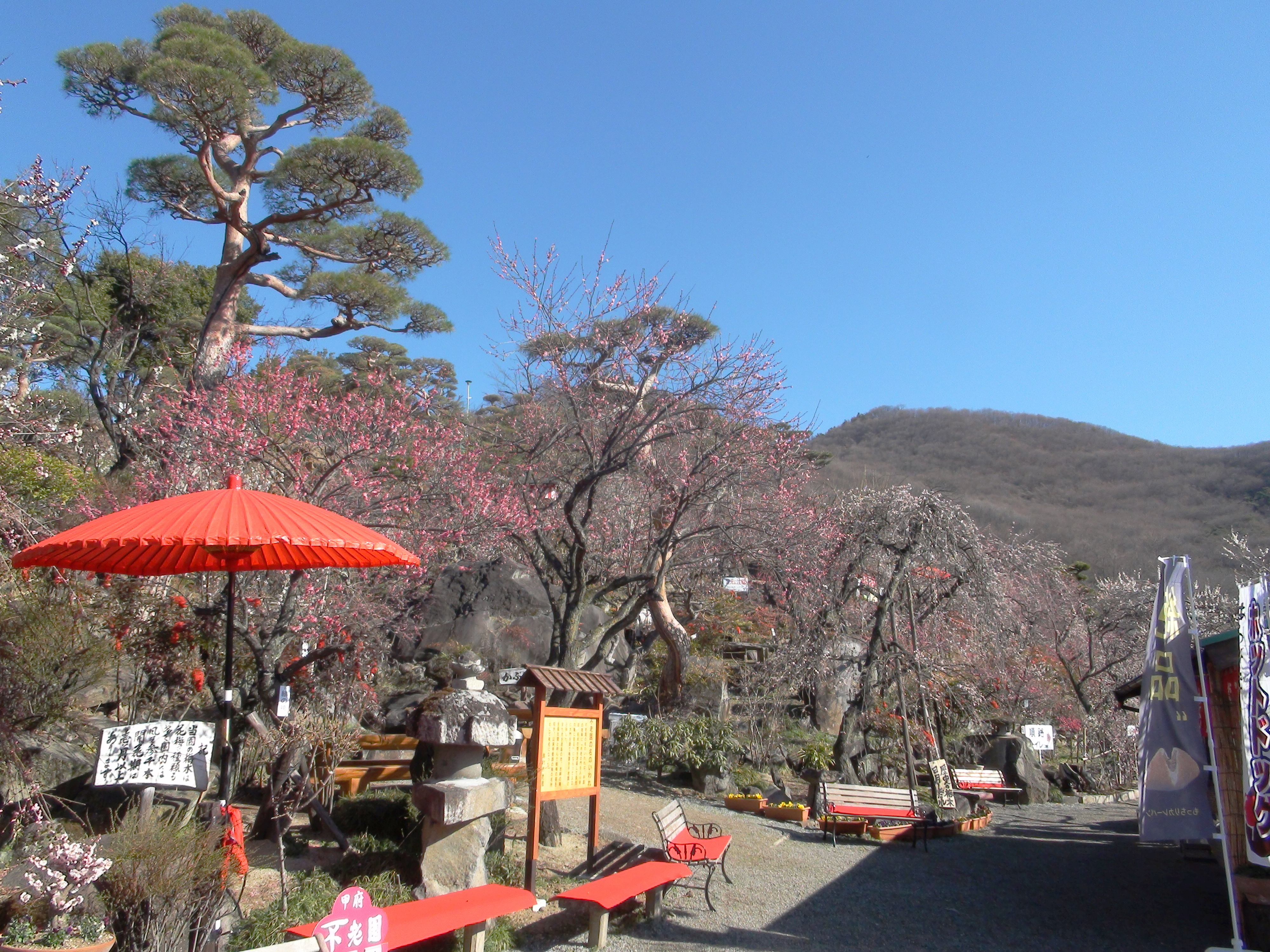 A central area of Furoen